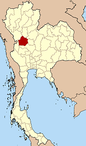 Map of Thailand highlighting Kamphaeng Phet province